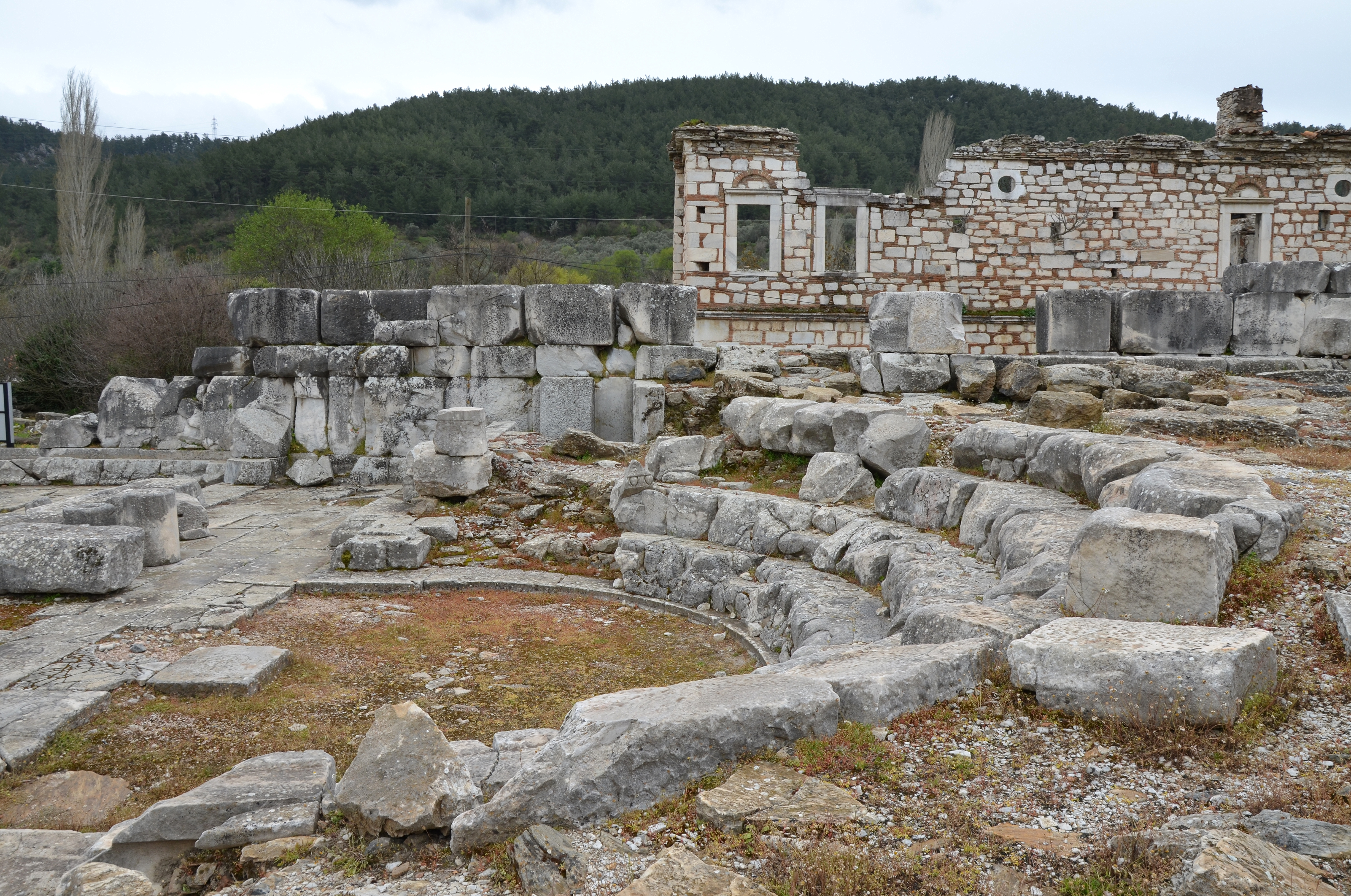 The Late Hellenistic Bouleuterion, built around 130 BC, Stratonicea Caria, Turkey